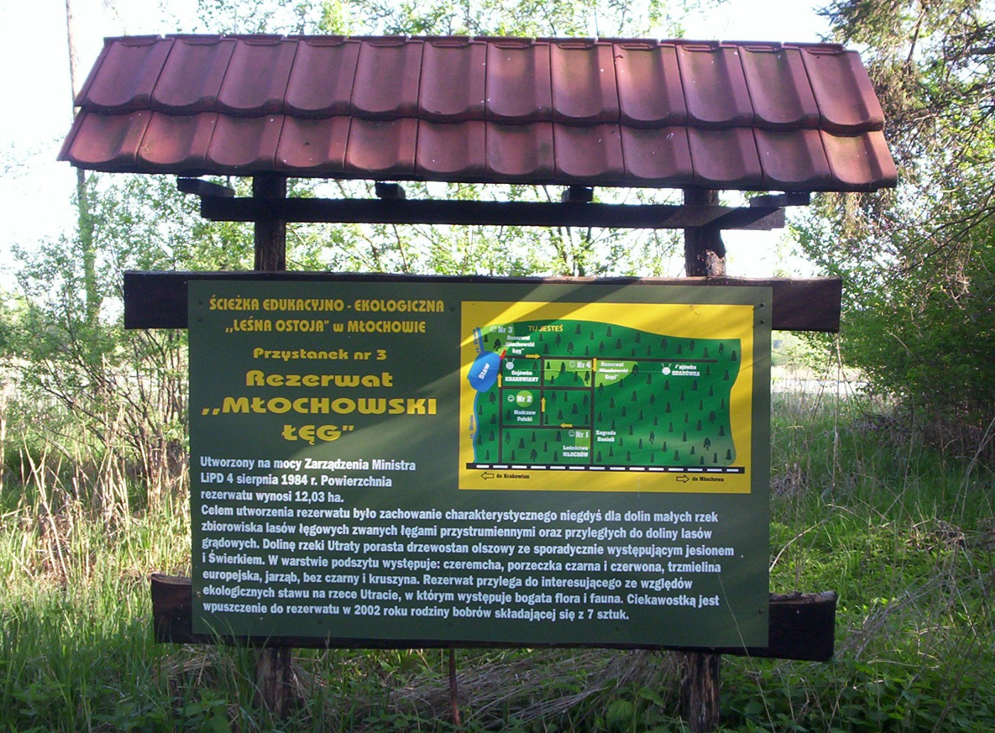 Educational trail - Nature reserve Młochowski Łęg, Poland.